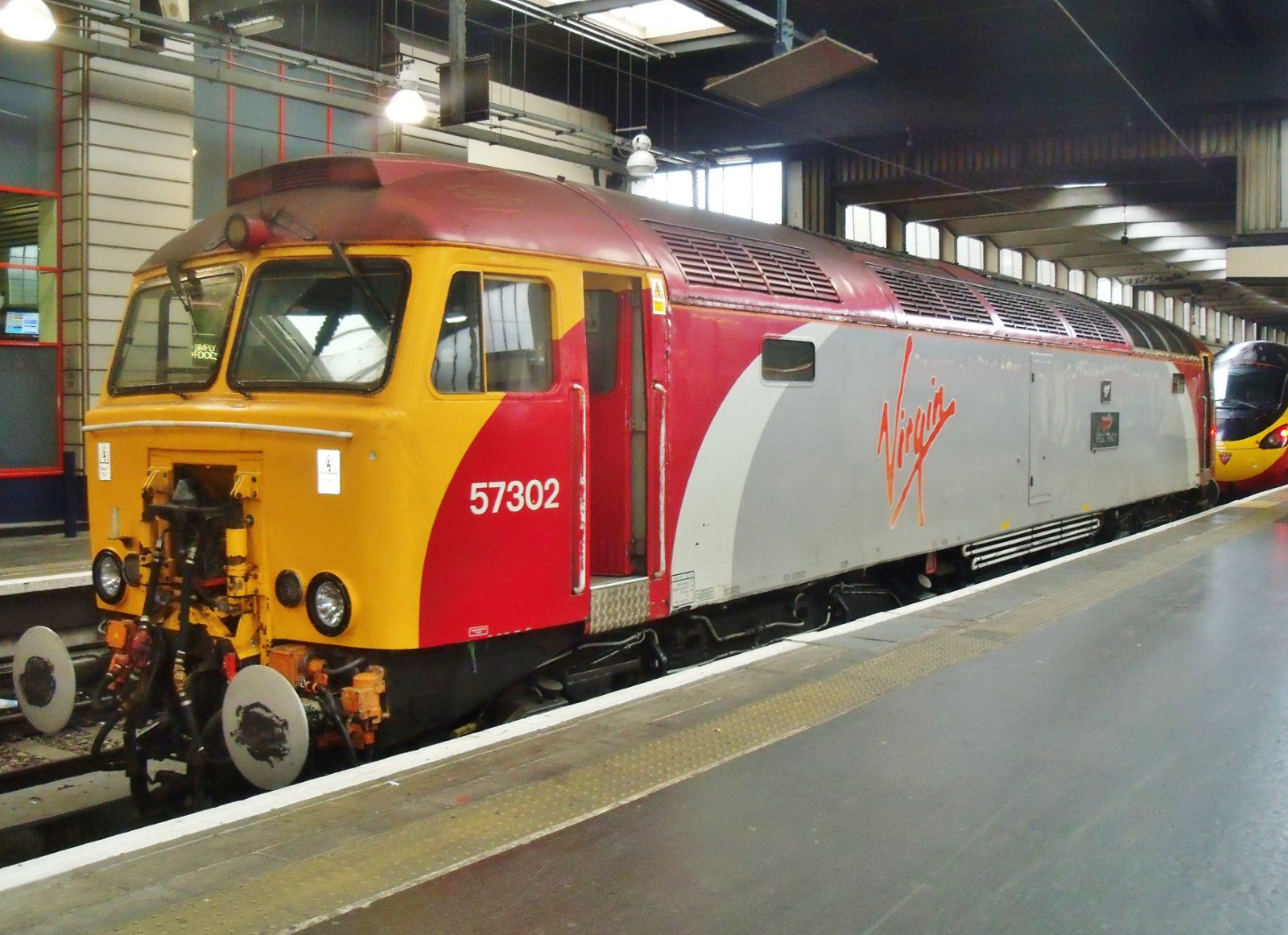 The Class 57 diesel locomotives were introduced by Brush Traction between 1997-2004. They are rebuilds, with reconditioned EMD engines, of former Class 47 locomotives, originally introduced in 1964-5. Here No 57302 is sitting idling at Euston Station.